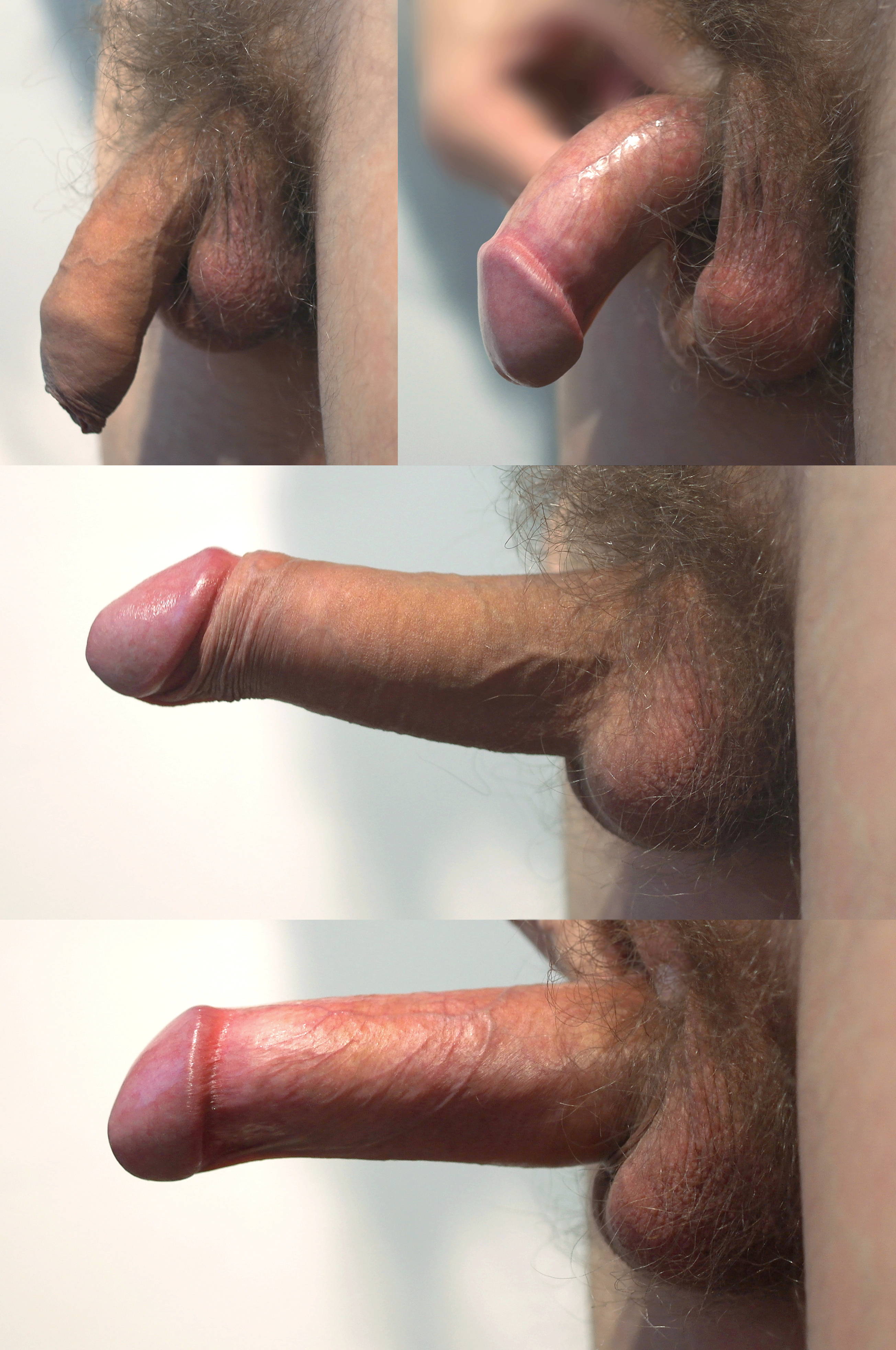 Penis with foreskin of a Southern-European male, 30 years. The foreskin usually covers a flaccid penis and its glans (fully or partially). When the penis starts erecting the foreskin retreats, in most cases behind the glans. It is possible to pull the foreskin until the end of the penis shaft, unhiding the sensitive skin of the penis (in flaccid and erect state); after being released it returns into its normal position. Penis length: flaccid approx. 9.5 cm = 3.7 in, erect approx. 16.3 cm = 6.4 in, measured upside Penis width: flaccid approx. 3 cm = 1.2 in , erect approx. 3.8 cm = 1.5 in Penis circumference: flaccid approx. 9.5 cm = 3.7 in, erect approx. 12.3 cm = 4.8 in Read my comments here: 123GLGL